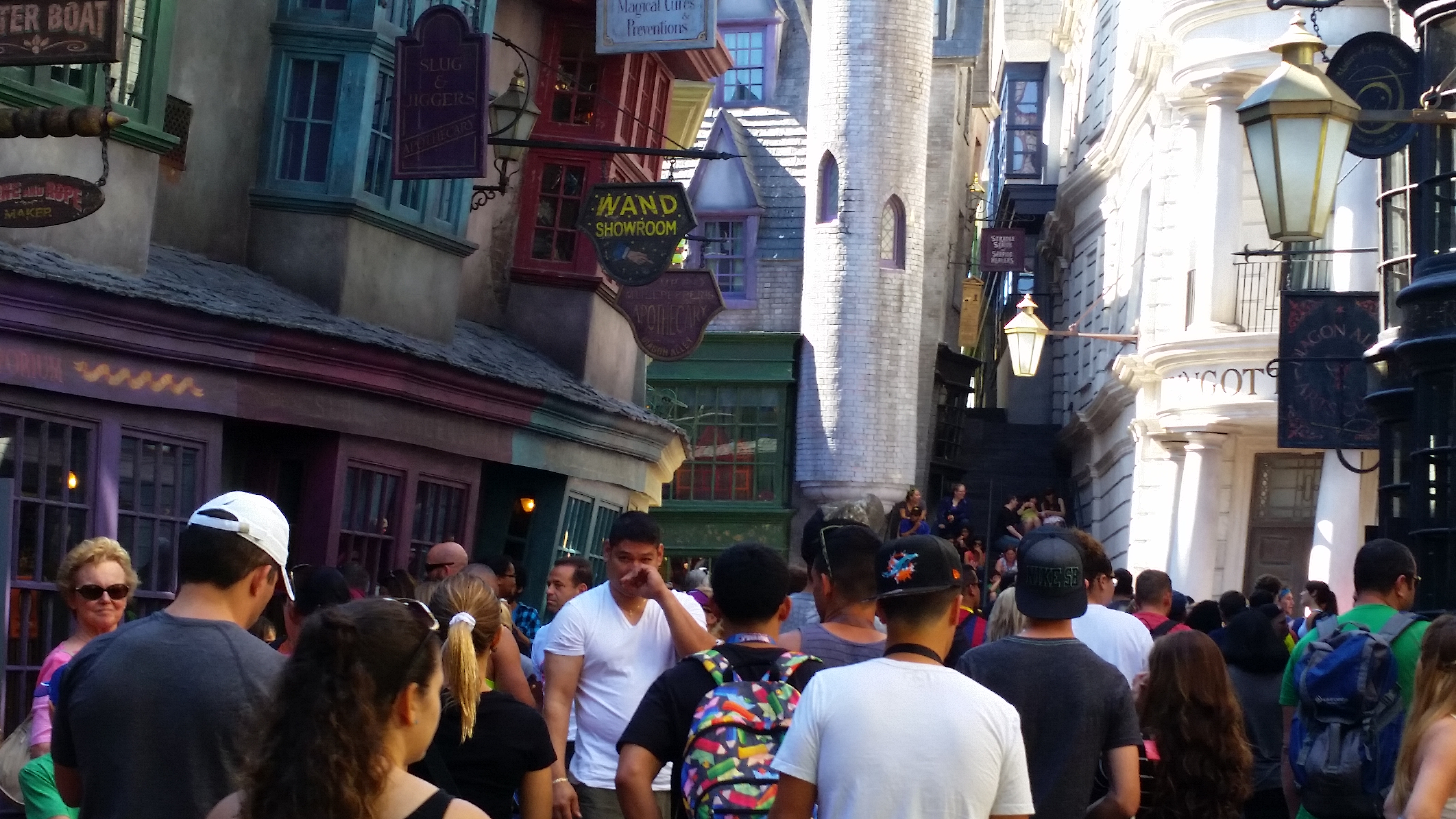 Diagon Alley at Universal Studios Florida